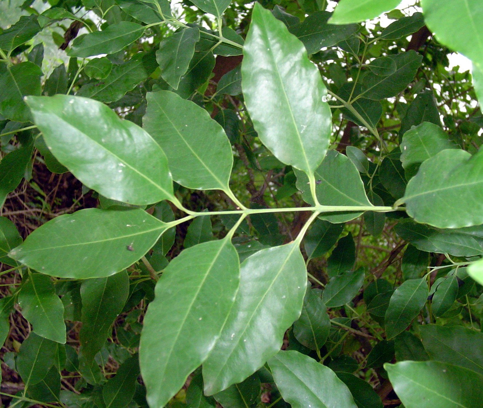 photographed by Pratheepps